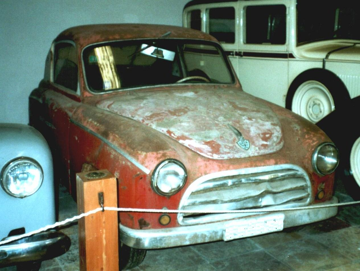 Orix 1952 (Country of origin: Spain)